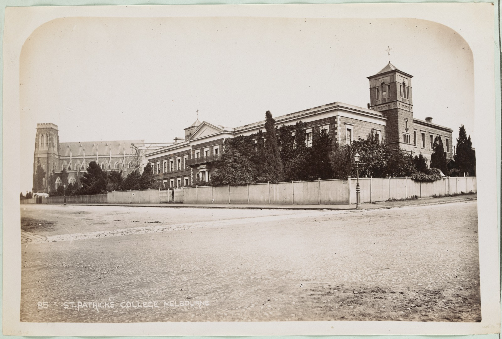 St Patricks College,1854-1968, corner of Lansdowne and Albert Streets, East Melbourne.